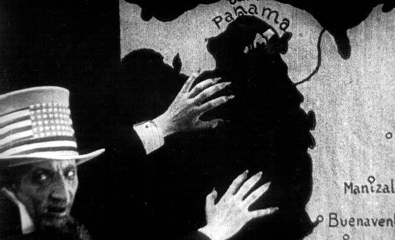 Still from the film 'Garras de oro' depicting Uncle Sam reaching for the isthmus of Panama, which had formerly been a territory of Colombia.